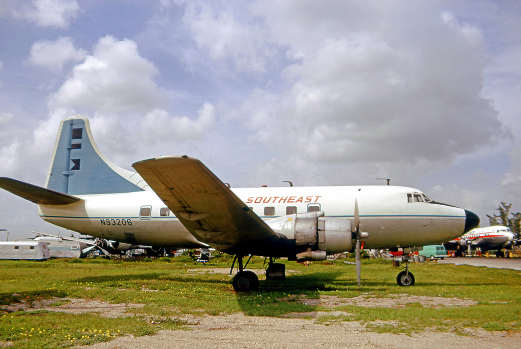 Martin 2-0-2A N93206 of Southeast Airlines (Florida) at Miami International Airport in 1970